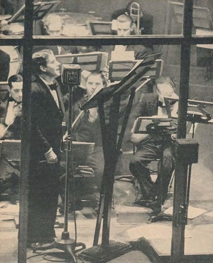 Rudy Vallée speaks into the microphone.